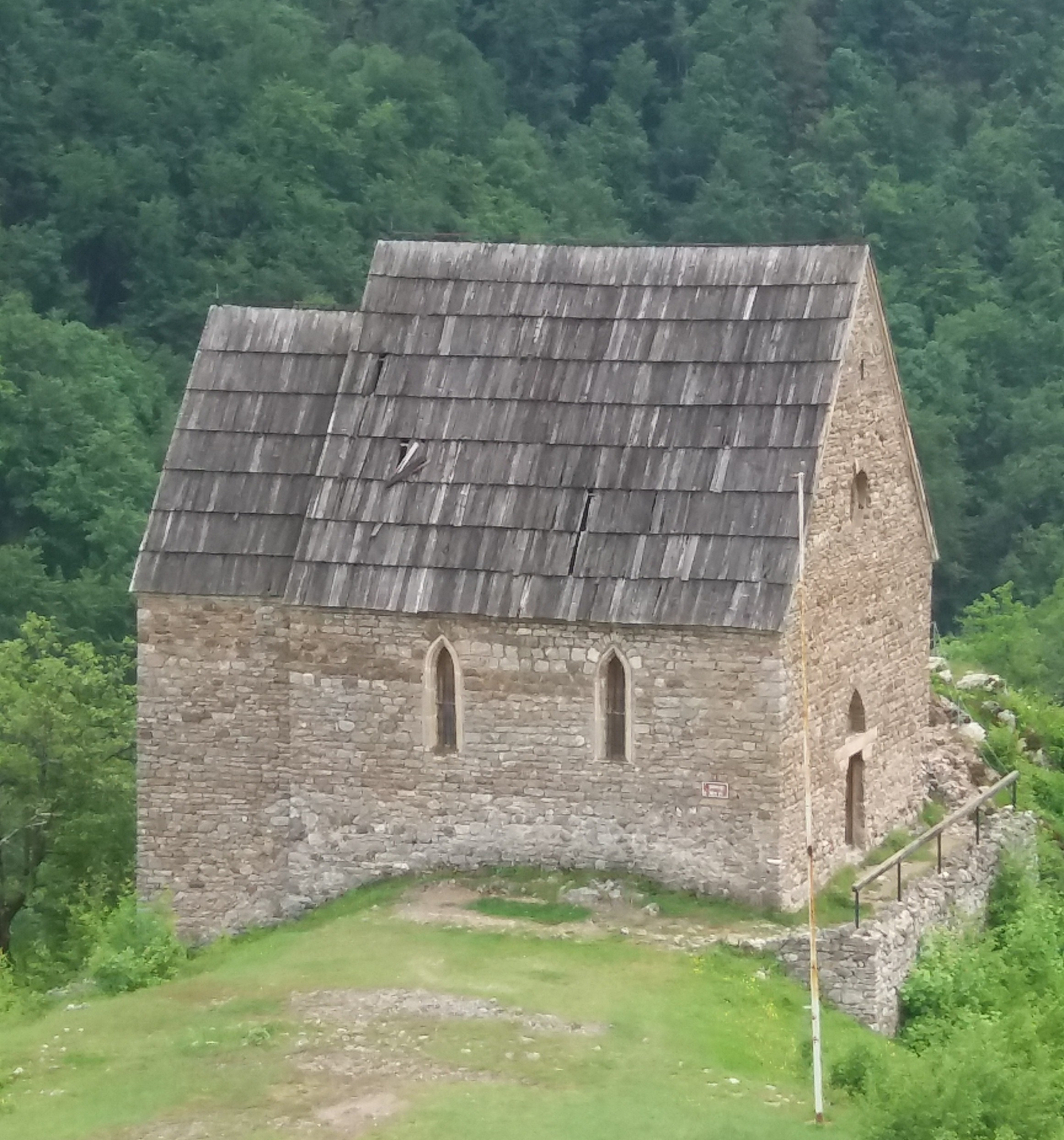 Bobovac